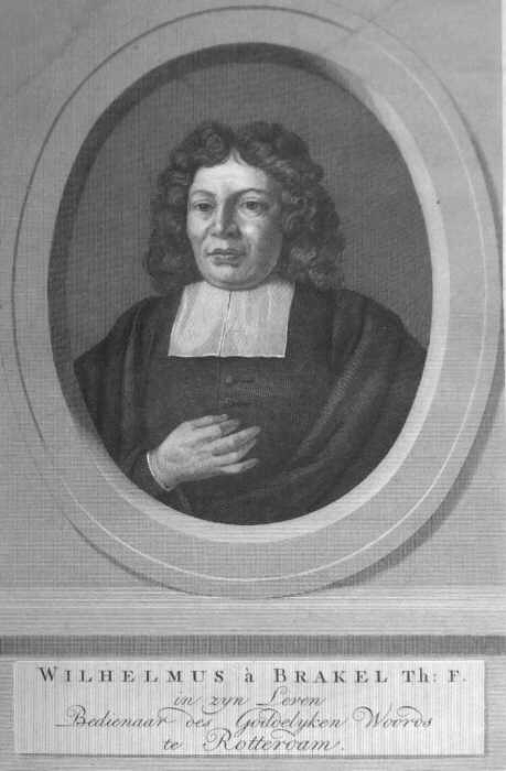 Wilhelmus à Brakel, from a XVII century print